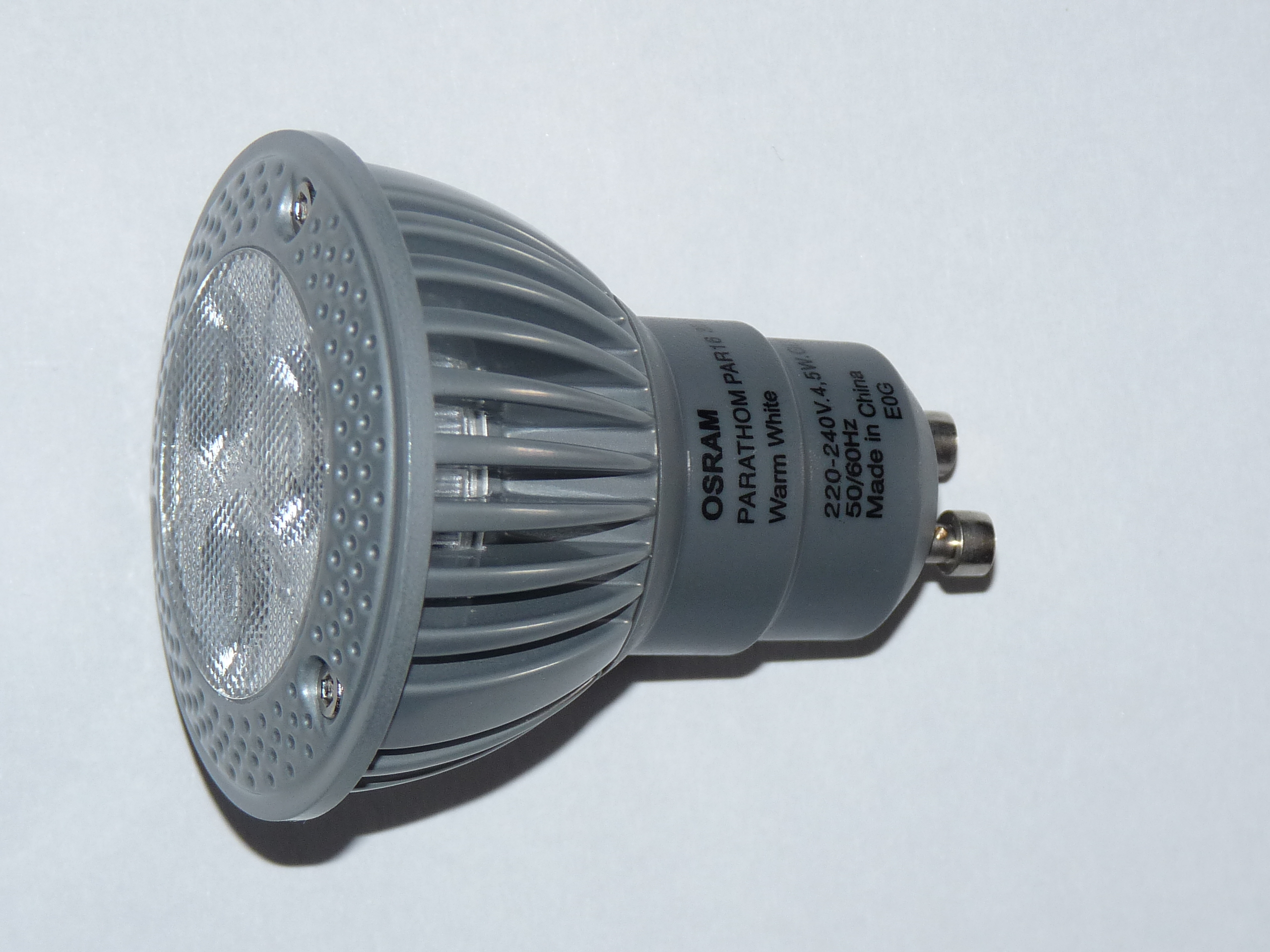 Osram 4.5W LED light bulb